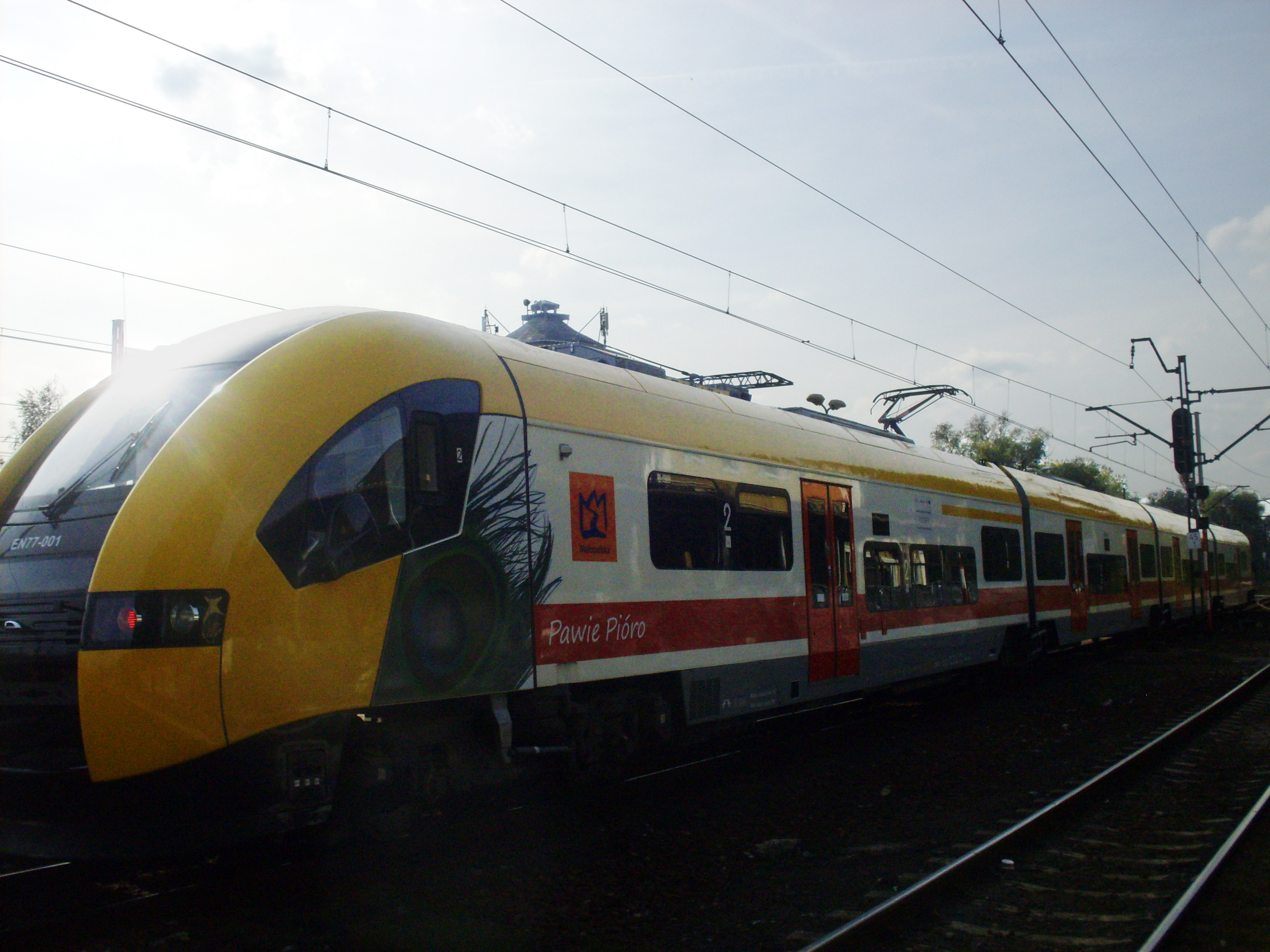 EN77 - Krzeszowice